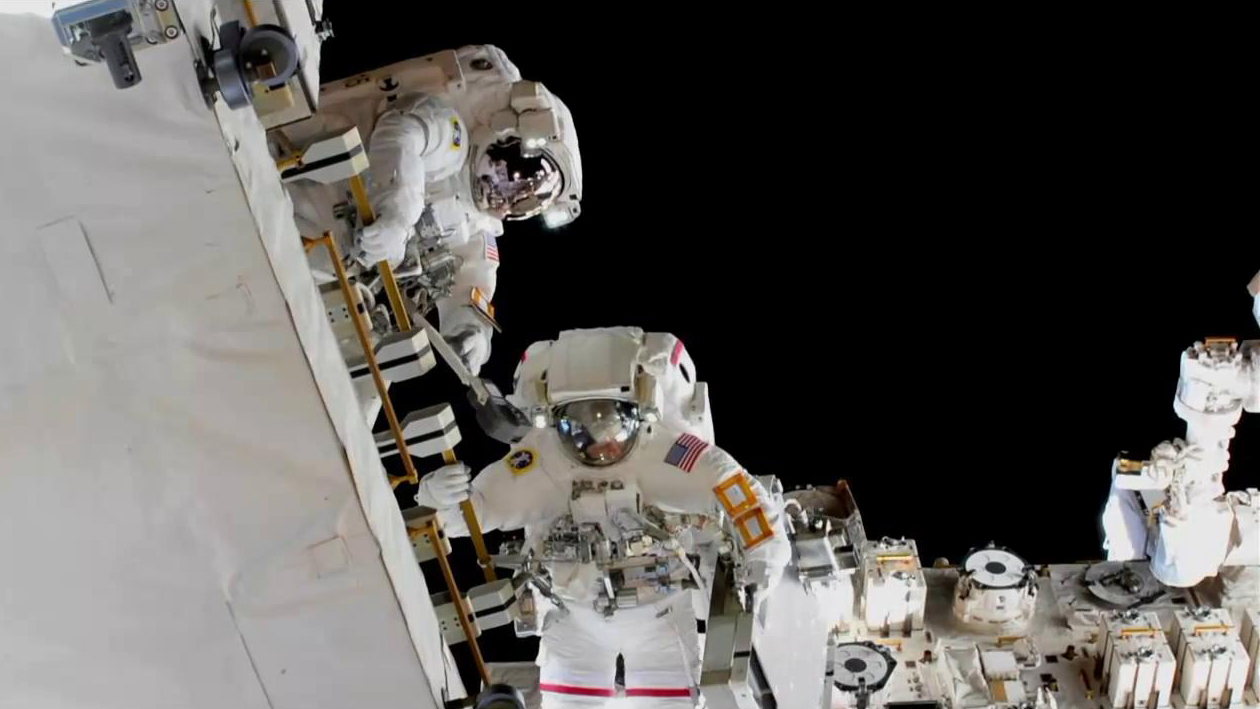 NASA astronauts Nick Hague (top) and Anne McClain work to swap batteries in the Port-4 truss structure during today’s spacewalk.